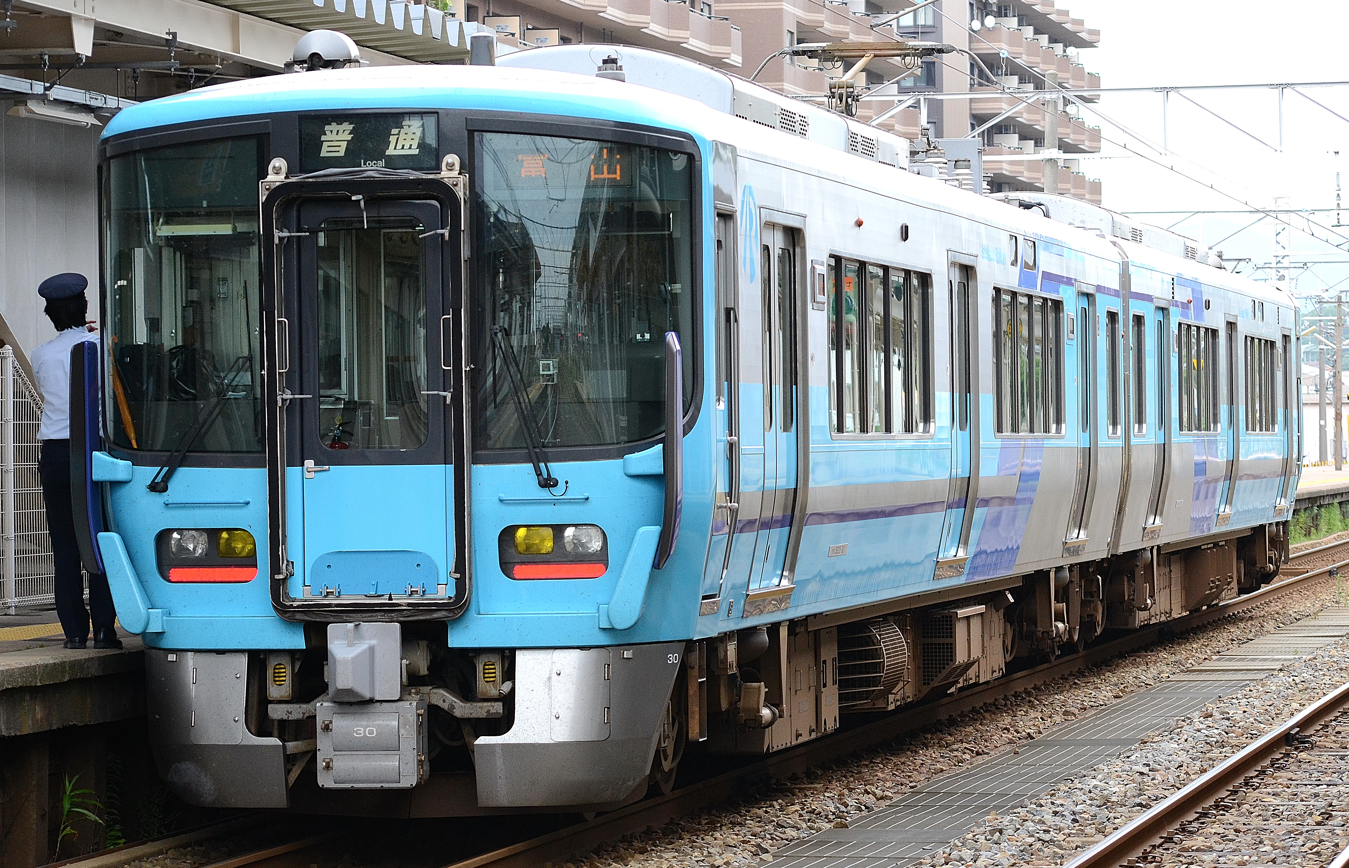 An IR Ishikawa Railway 521 series EMU set at Tsubata Station